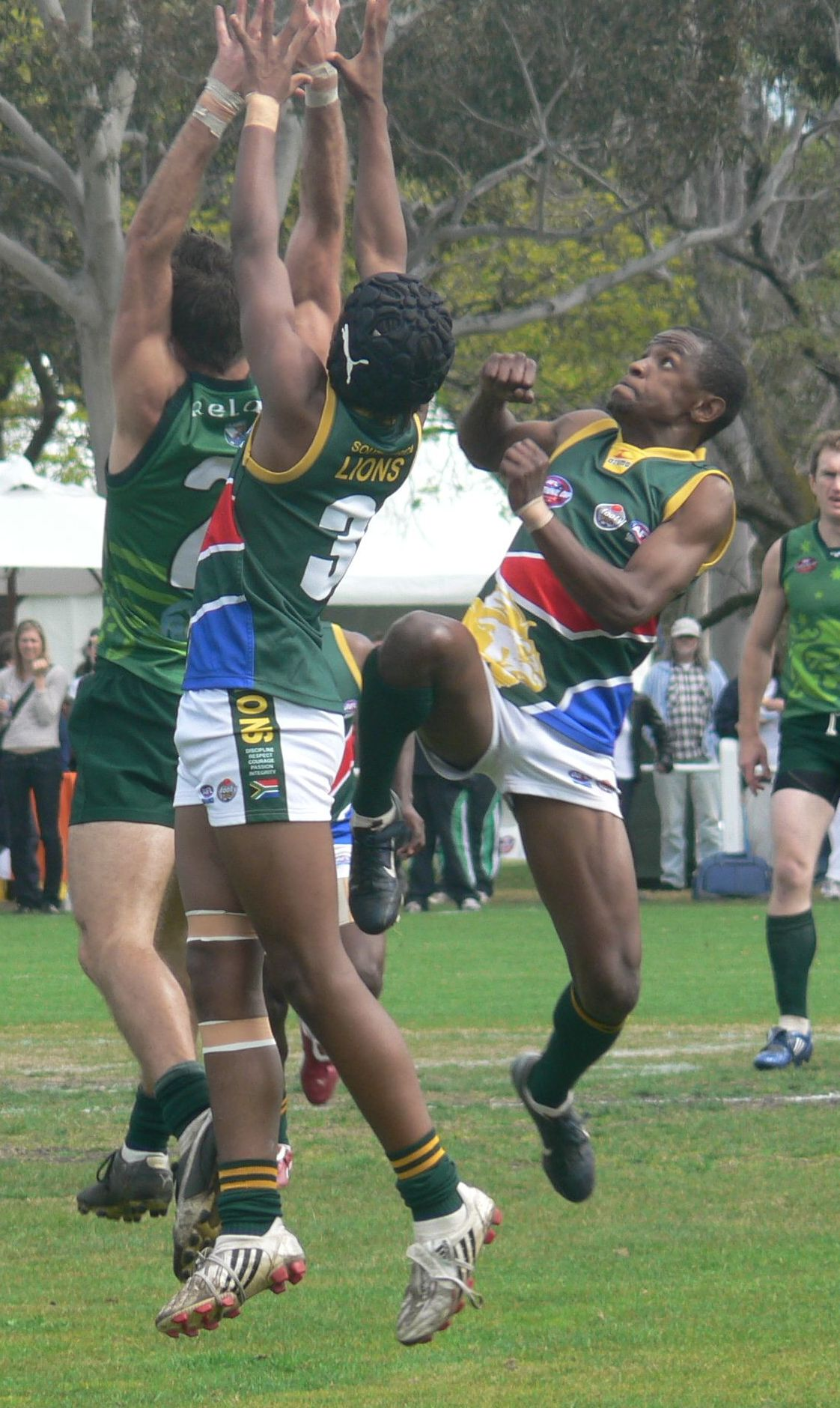 Marking contest between South Africa and Ireland during the 2008 Australian Football International Cup